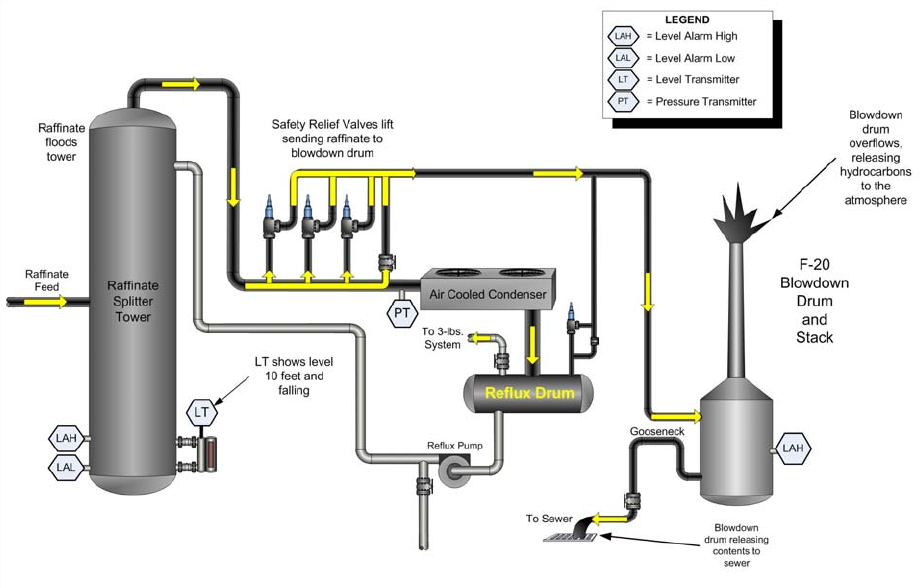 March 2005 incident in the BP Texas City refinery. Diagram shows the effects of the raffinate splitter tower overfilling, with subsequent release of flammable hydrocarbons into the environment through the blowdown stack.